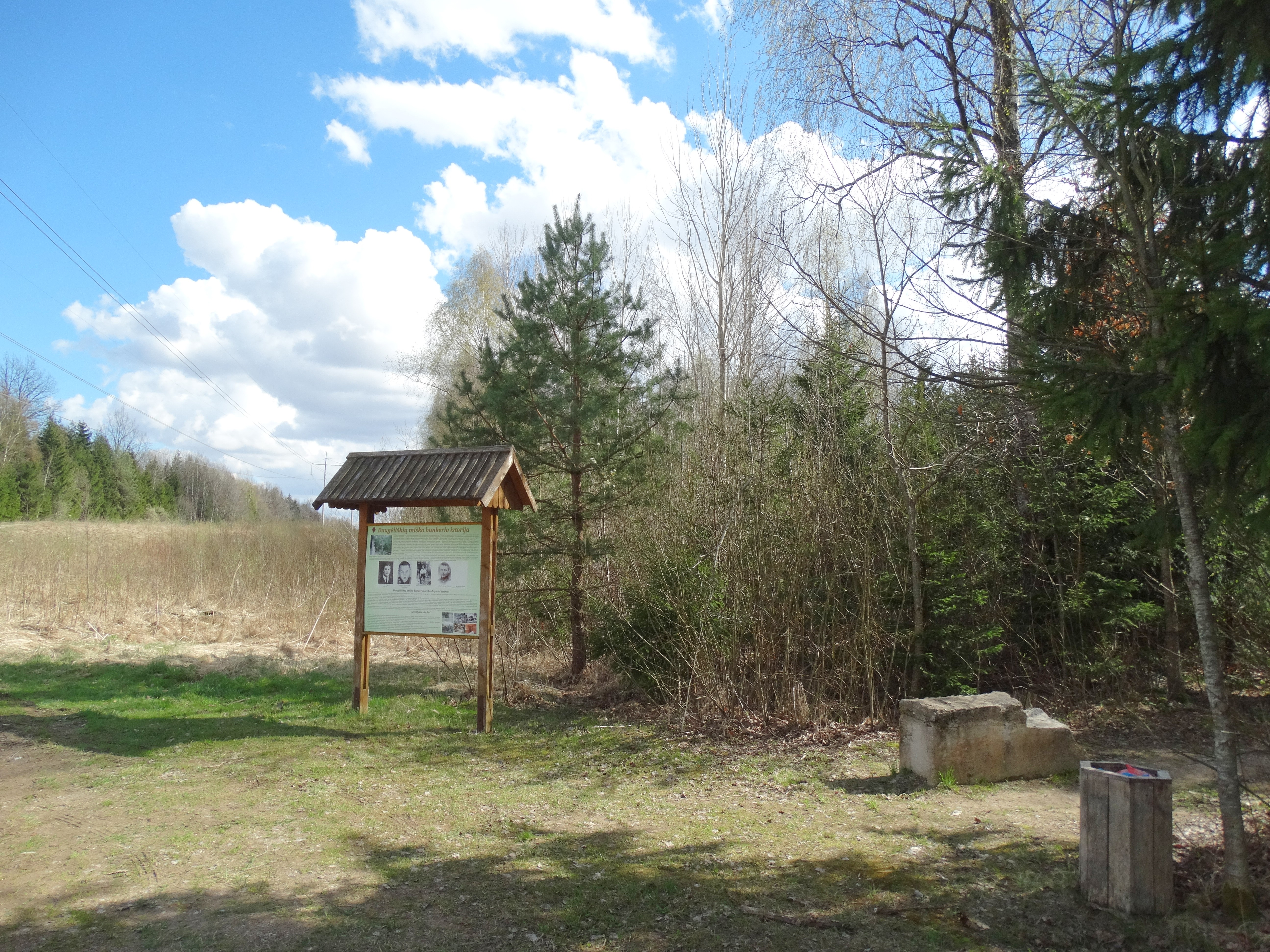 Memorial to partisans, Daugėliškiai forest, Raseiniai district, Lithuania